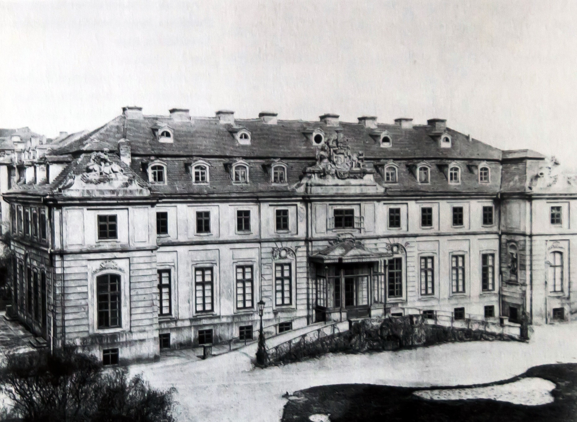 Palais Moscinska vor 1872 (da wurde es abgerissen)